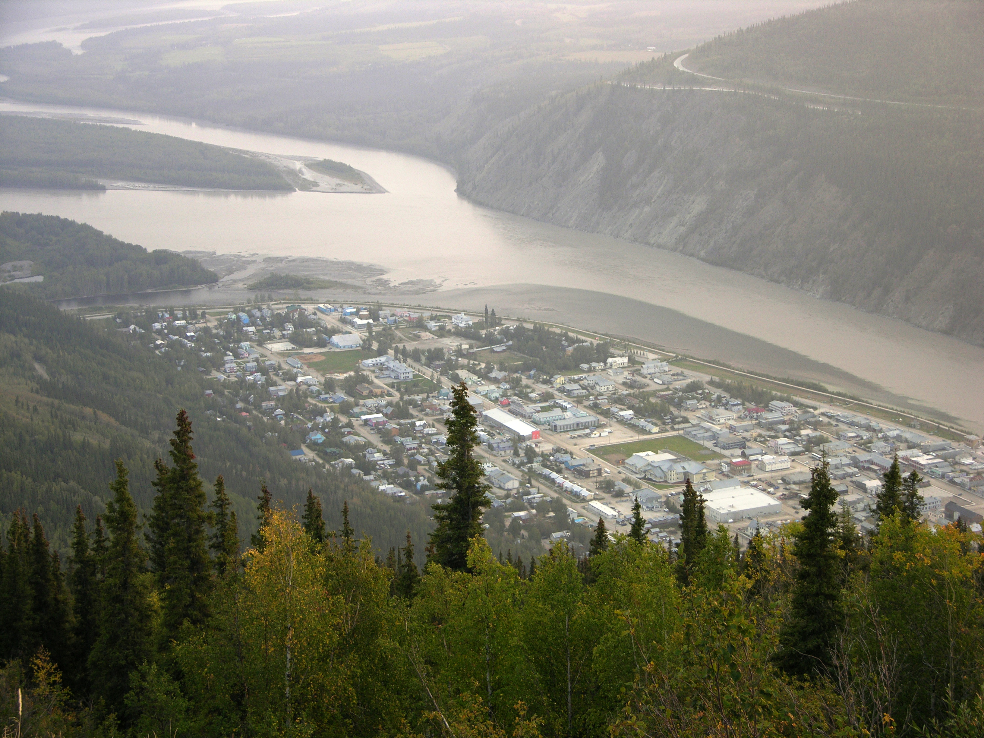 A photograph of Dawson City, Yukon from Midnight Dome. The Yukon River (right and upper) and Klondike River (left) are also shown.